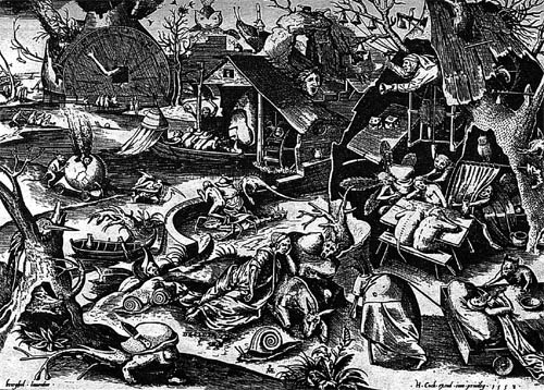 Pieter Brueghel - The Seven Deadly Sins